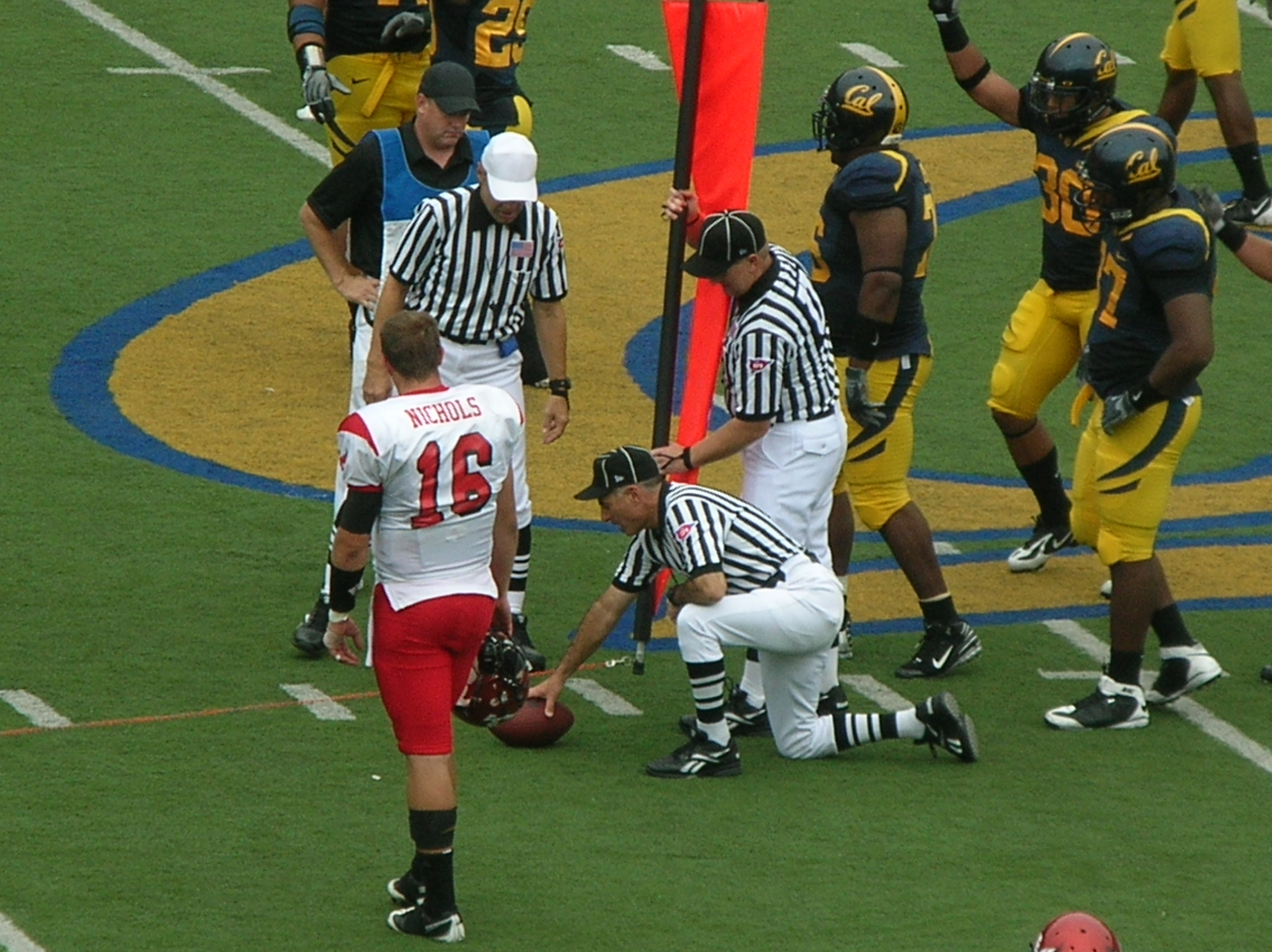 Officials measure for a first down during a football game between the Eastern Washington Eagles and the California Golden Bears. The conversion attempt was short. The Golden Bears won 59-7.